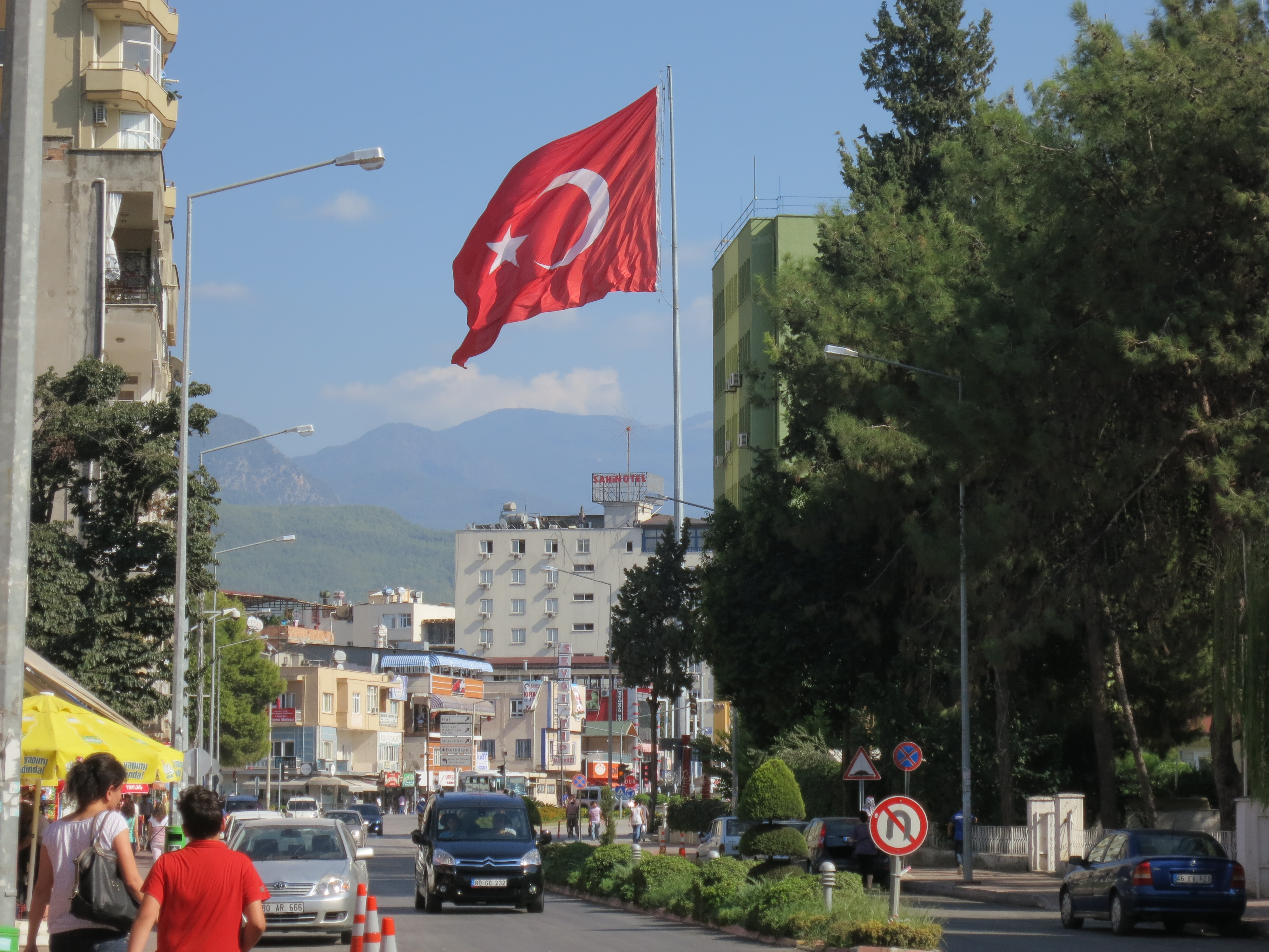 Downtown Osmaniye